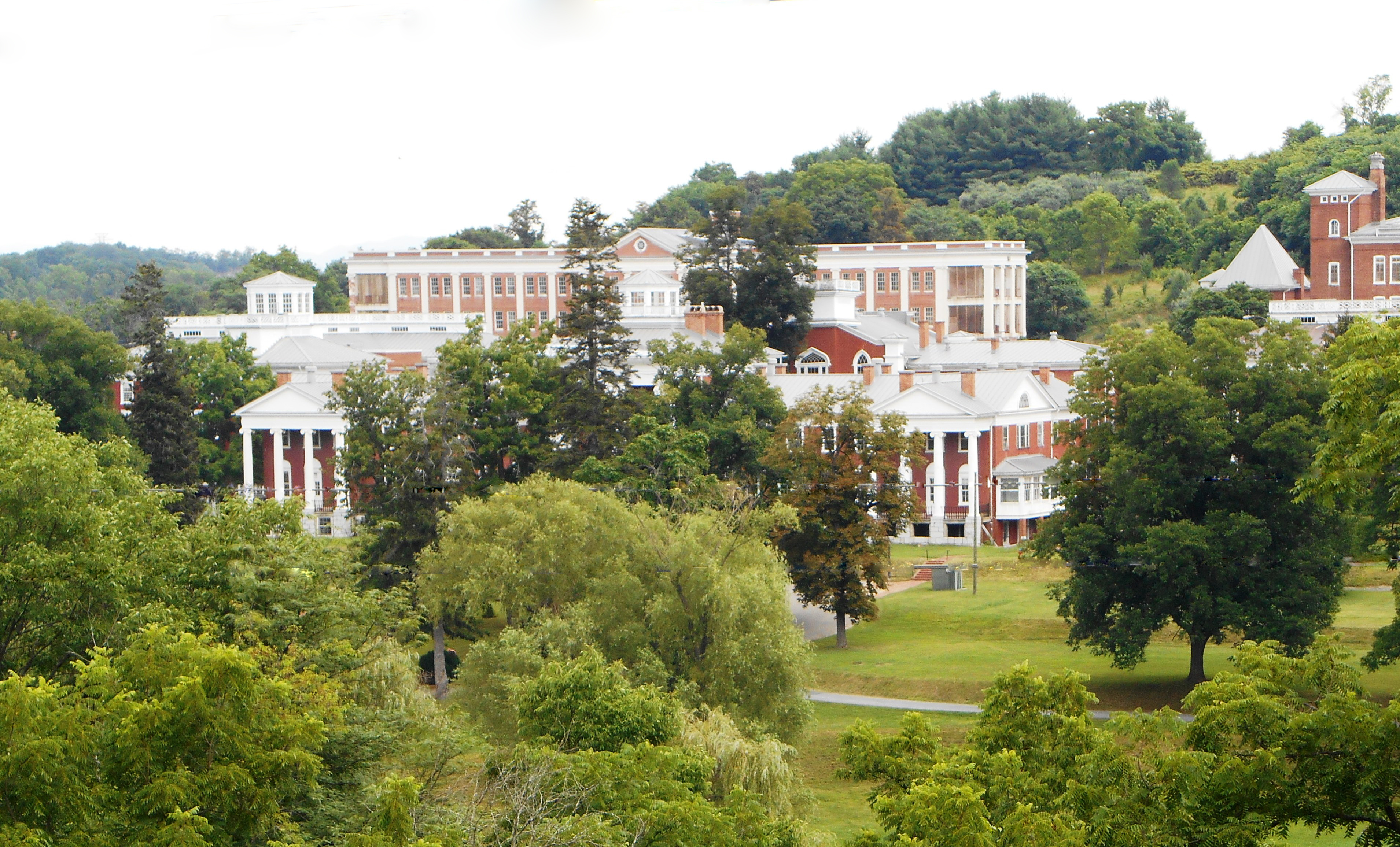 Western State Hospital Complex, Jct. of U.S. 11 and U.S. 250 Staunton